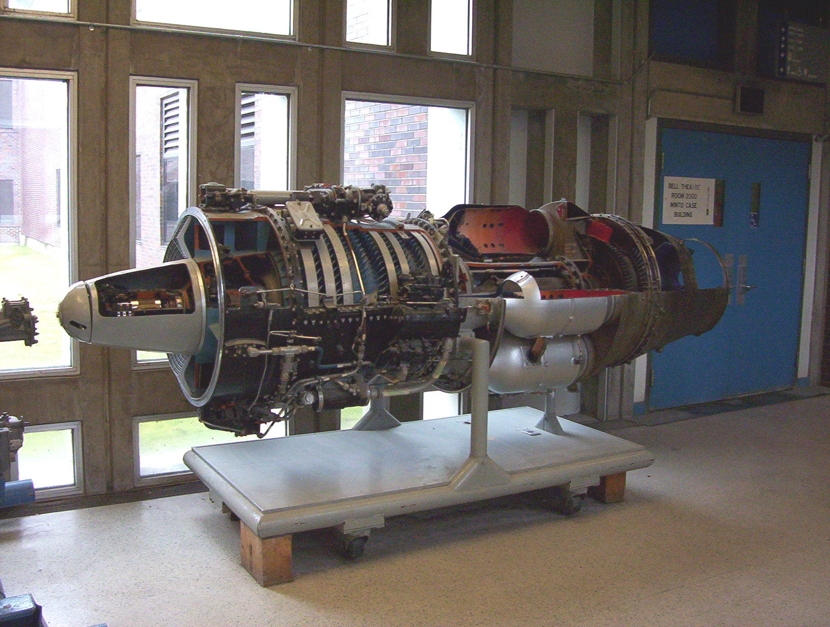 Avro Jet engine located at Carleton University (Ottawa, Canada). By Me.